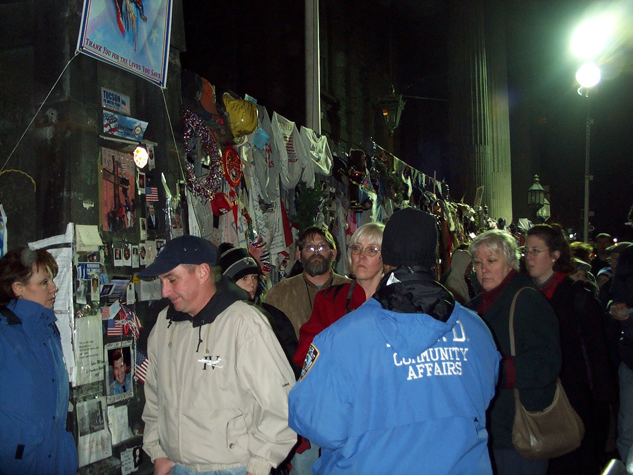 Shrine made of mementos and cards left by loved ones at Saint Paul's Chapel in Manhattan, one block from the World Trade Center site. Photographed by Luigi Novi. This photo is not in the public domain. It may, however, be used, modified and published for any purpose, free of charge, only if an easily visible credit to the photographer is placed near the photo in each instance in which it is used. (See licensing information below.) Publication of this photo without this proper attribution constitutes copyright infringement. For more information on my photos, you can contact me here.